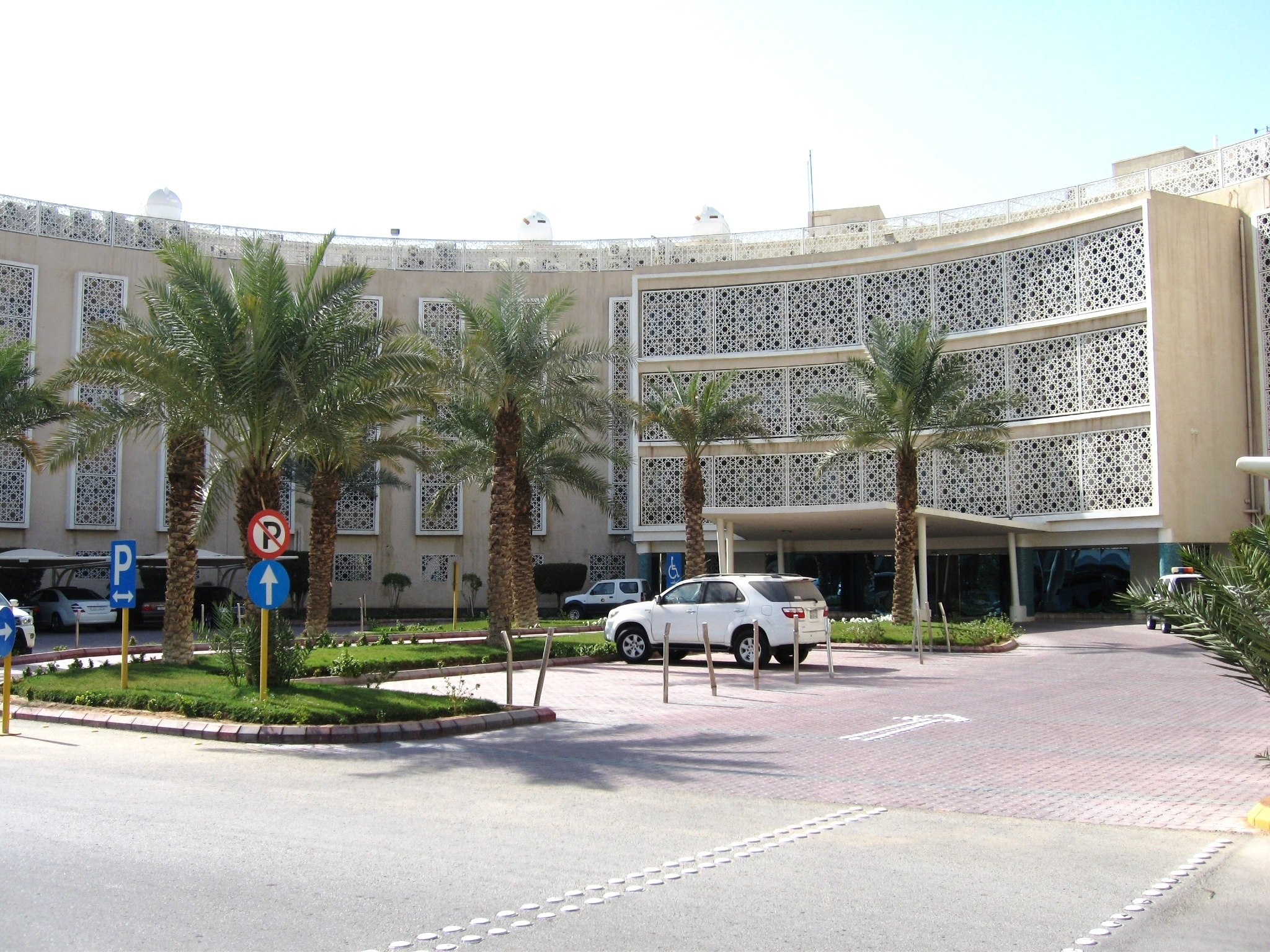 Ministry of Transportation, Riyadh, Saudi Arabia